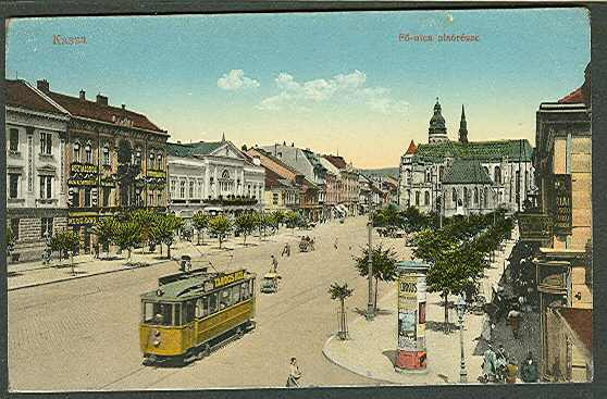 Main Street in Košice around 1900